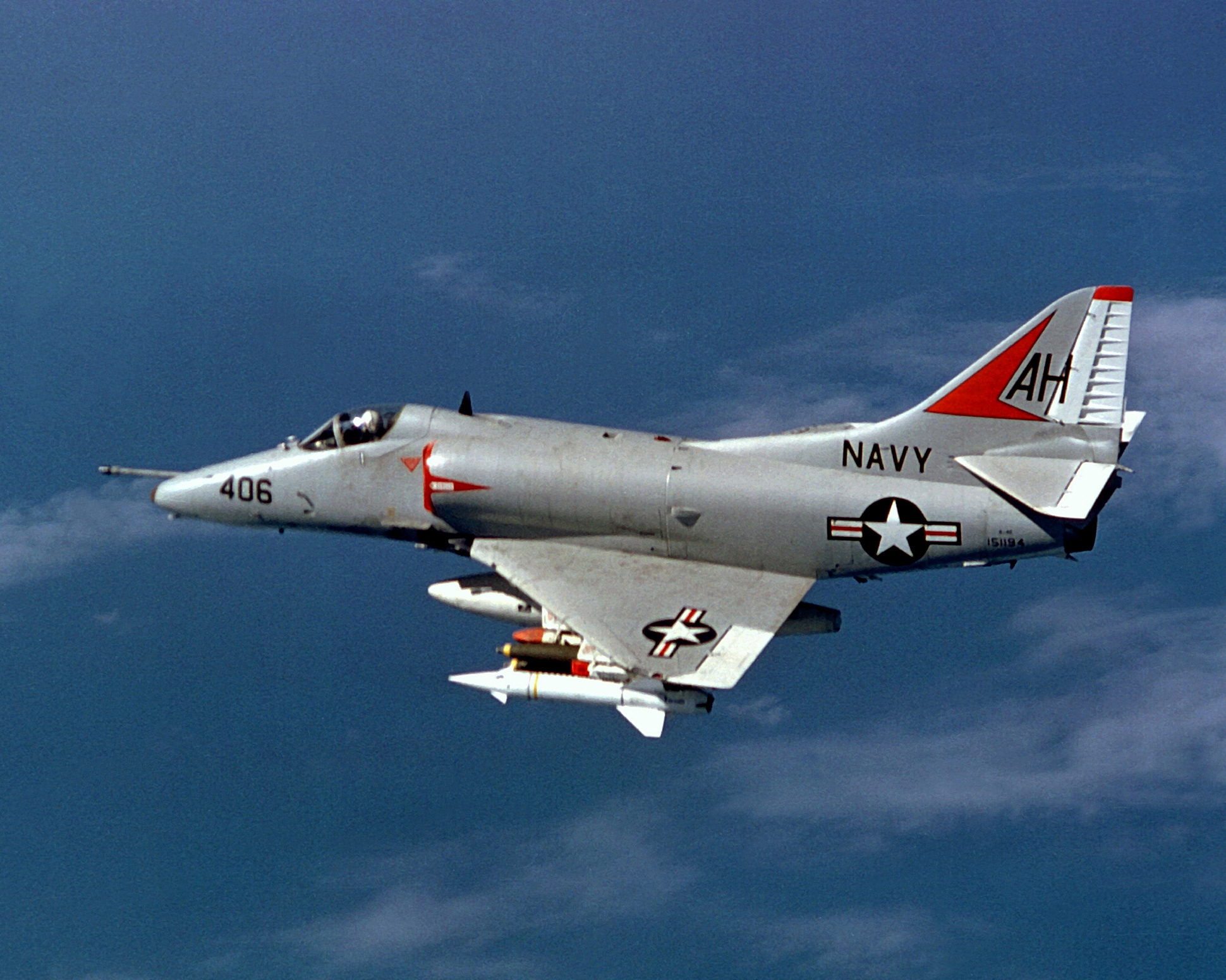 A U.S. Navy Douglas A-4E Skyhawk (BuNo 151194) from Attack Squadron 164 (VA-164) "Ghost Riders" en route to a target in North Vietnam on 21 November 1967. VA-164 was assigned Attack Carrier Air Wing 16 (CVW-16) aboard the aircraft carrier USS Oriskany (CVA-34) for a deployment to Vietnam from 16 June 1967 to 31 January 1968. The aircraft was piloted by Cmdr. William F. Span, executive officer of VA-164 and was armed with six Mk 82 500 lb (227 kg) bombs and two AGM-12 Bullpup missiles. The A-4E 151194 is today on display at Pacific Coast Air Museum, California (USA), painted in the colours of Marine Attack Squadron 131 (VMA-131) "Diamondbacks".